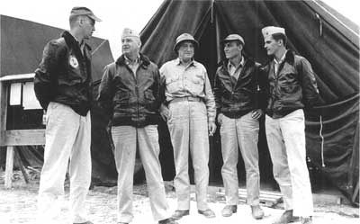 During a visit to Marines in late April, the Commandant, Gen Alexander A. Vandegrift, second from left, called on MajGen Francis P. Mulcahy, center commander of the Tactical Air Force, Tenth Army, and three of his pilots: Maj George C. Axtell, Jr., left